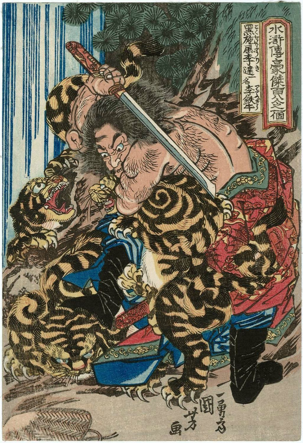 Li Kui (李逵) kills 4 tigers in a rage after they killed and ate his mother